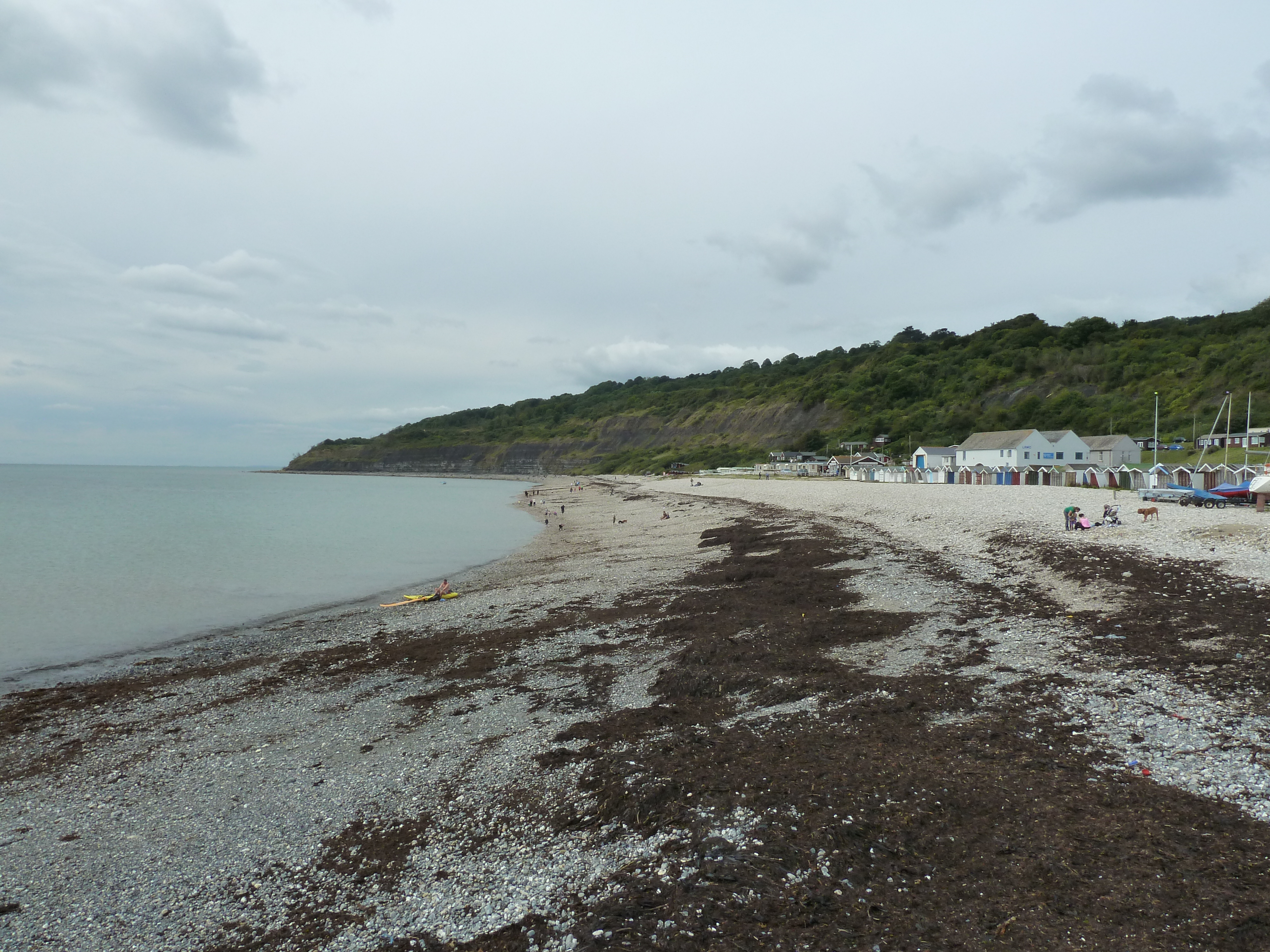 A view over monmouth beach and ware cliffs from the lyme regis cobb.